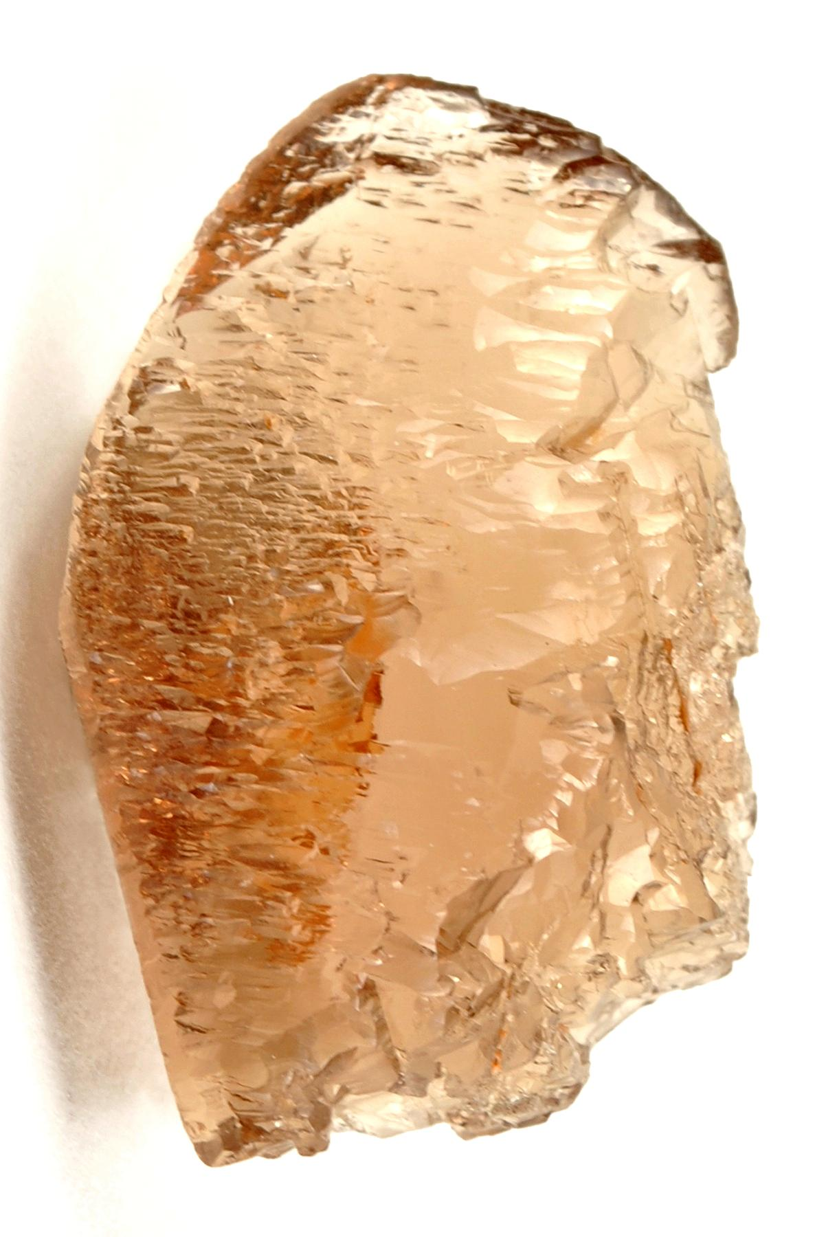 Petalite Locality: Mogok, Pyin Oo Lwin District, Mandalay Division, Burma (Myanmar) (Locality at ) Size: miniature, 3.8 x 2.4 x 1.6 cm Petalite A 17-gram GEM petalite with a most unusual, champagne color to it?! This is a total gem, floater, crystal. It has a large gem rough value to it, as well. From the James Zigras collection, and previously from the Bill Larson Mogok collection. Highly unusual and significant, for the Mogok or REE collector, I would think